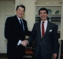 Ronald Reagan and John Hubert Kelly in 1987 in Oval Office